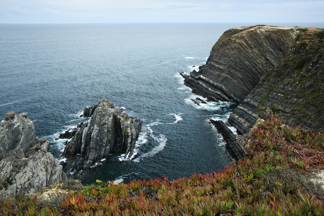 Alentejo, Portugal. Aug 2011